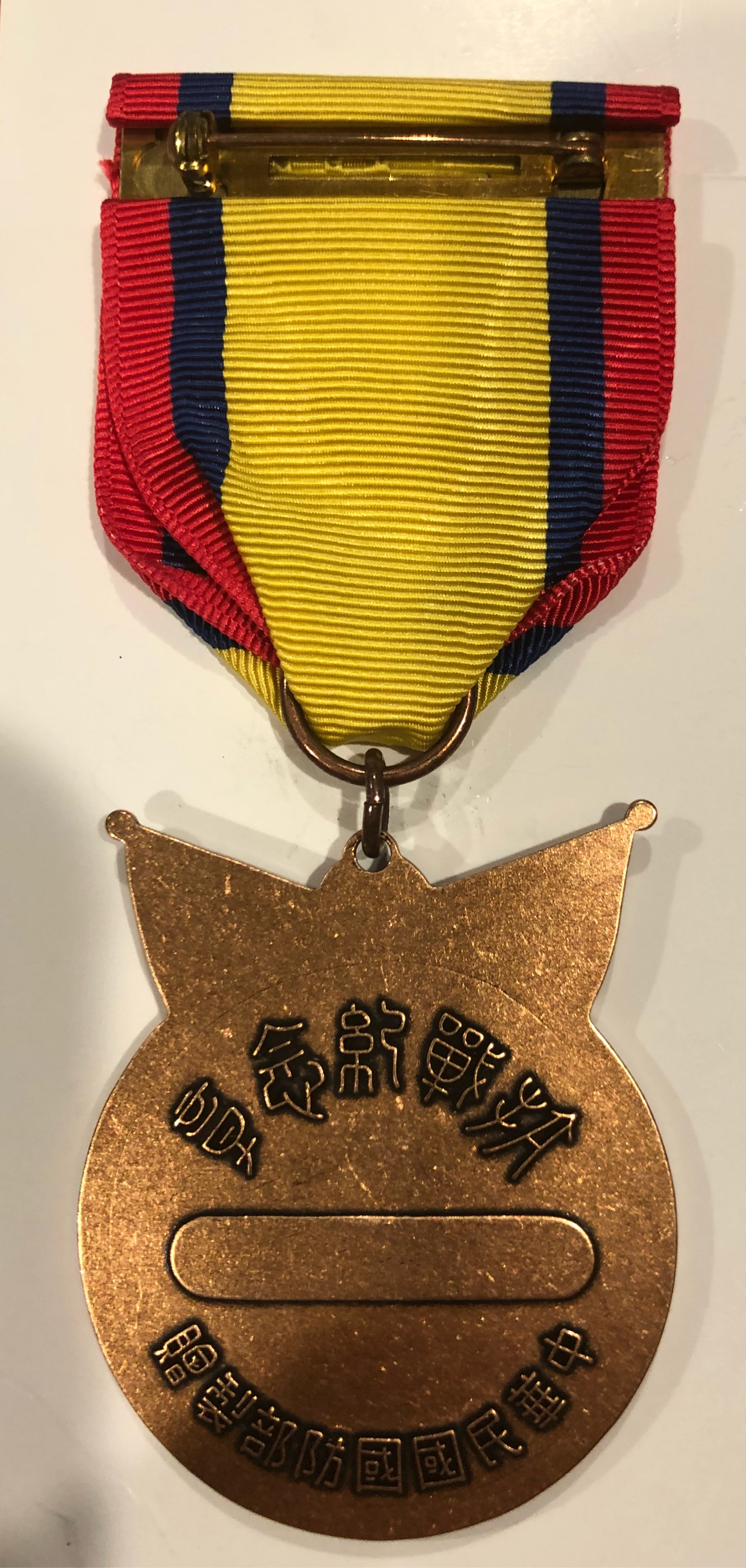 China War Memorial Medal reverse, reading: (small seal script, top, from right to left:) 抗戰紀念章 (traditional Chinese characters, bottom, from right to left:) 中華民國國防部製贈